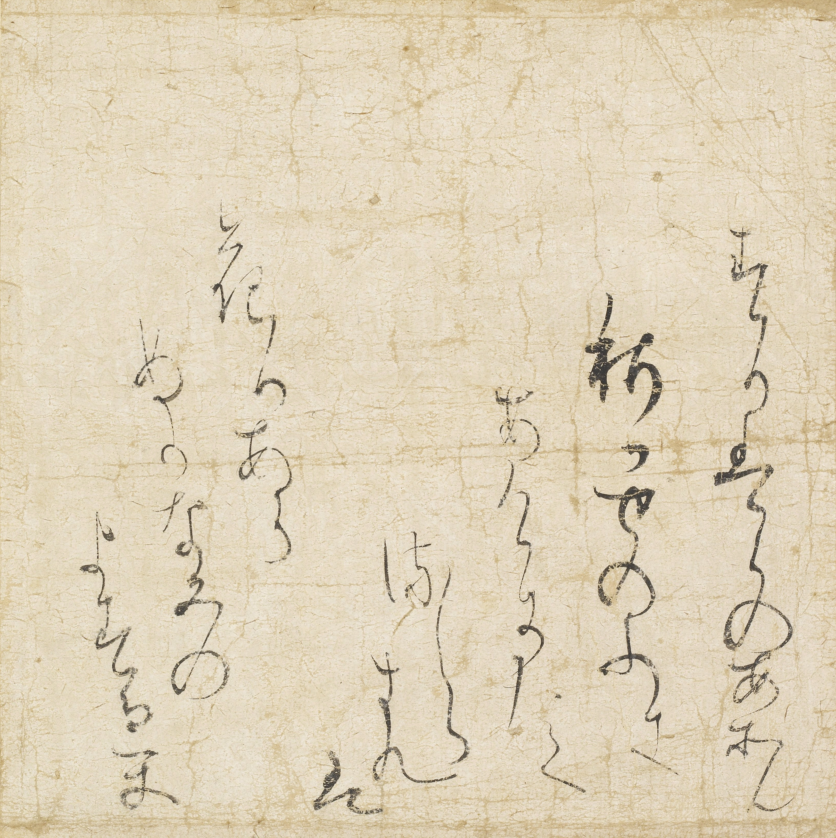 Sunshoan Shikishi, attributed to Ki no Tsurayuki, Nomura Art Museum, Kyoto, Kyoto, Japan